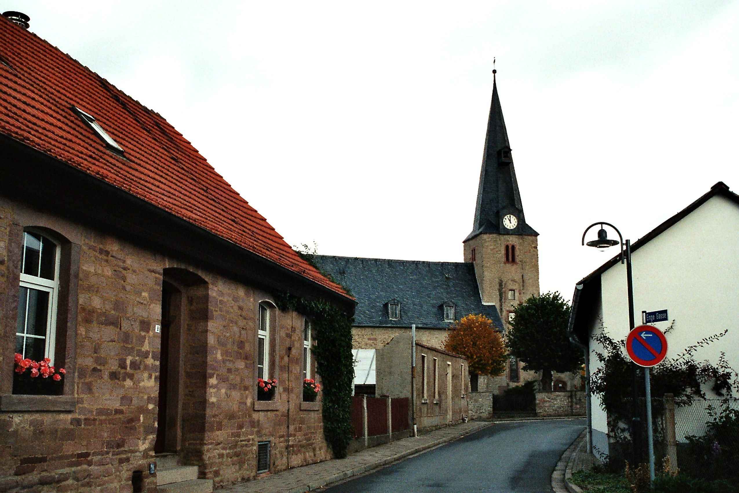 Großleinungen (Sangerhausen), the village church St. Michael This is a photograph of an architectural monument. 81012